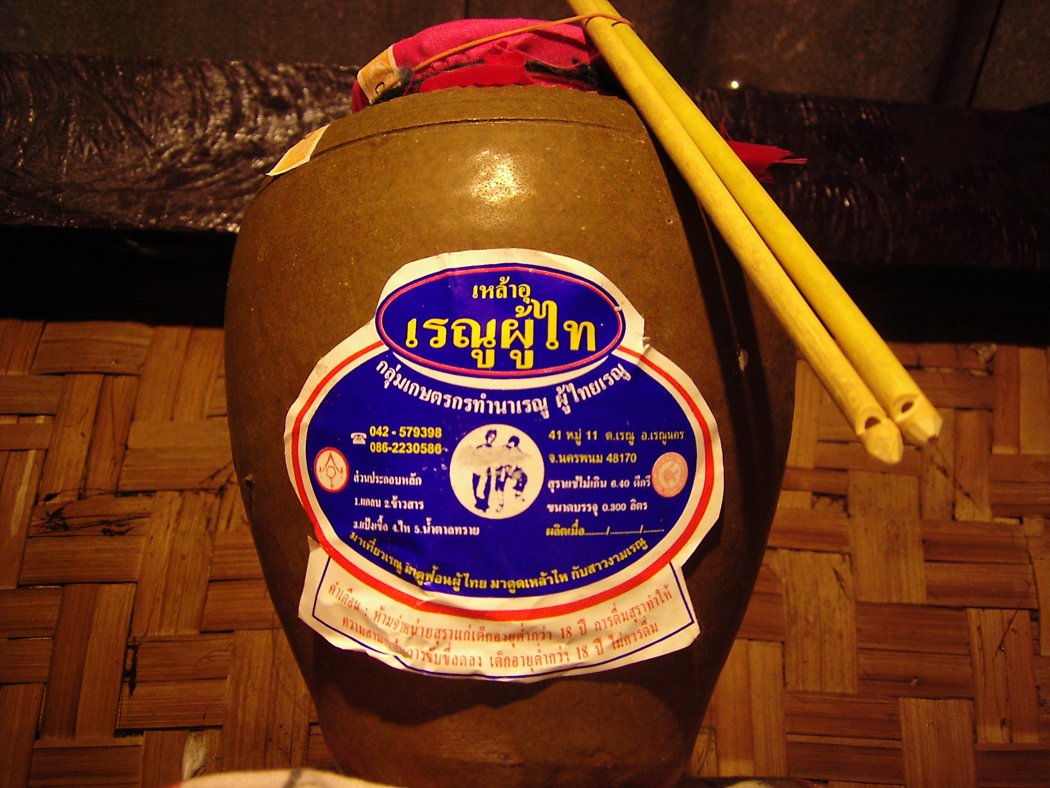 Lao-U or Jug Whiskey / ReyNuu PhuTai / Ingrediants / 1. Rice chaff 2. Milled rice 3. Baker's yeast 4. Jug 5. Refined sugar / Alcohol not more than 6.40 degree (6.4%) Come visit Reynuu Come see Phu Tai Dance Come sip Jug Whiskey with pretty girls of Reynuu CAUTION : Don't sell to children under 18